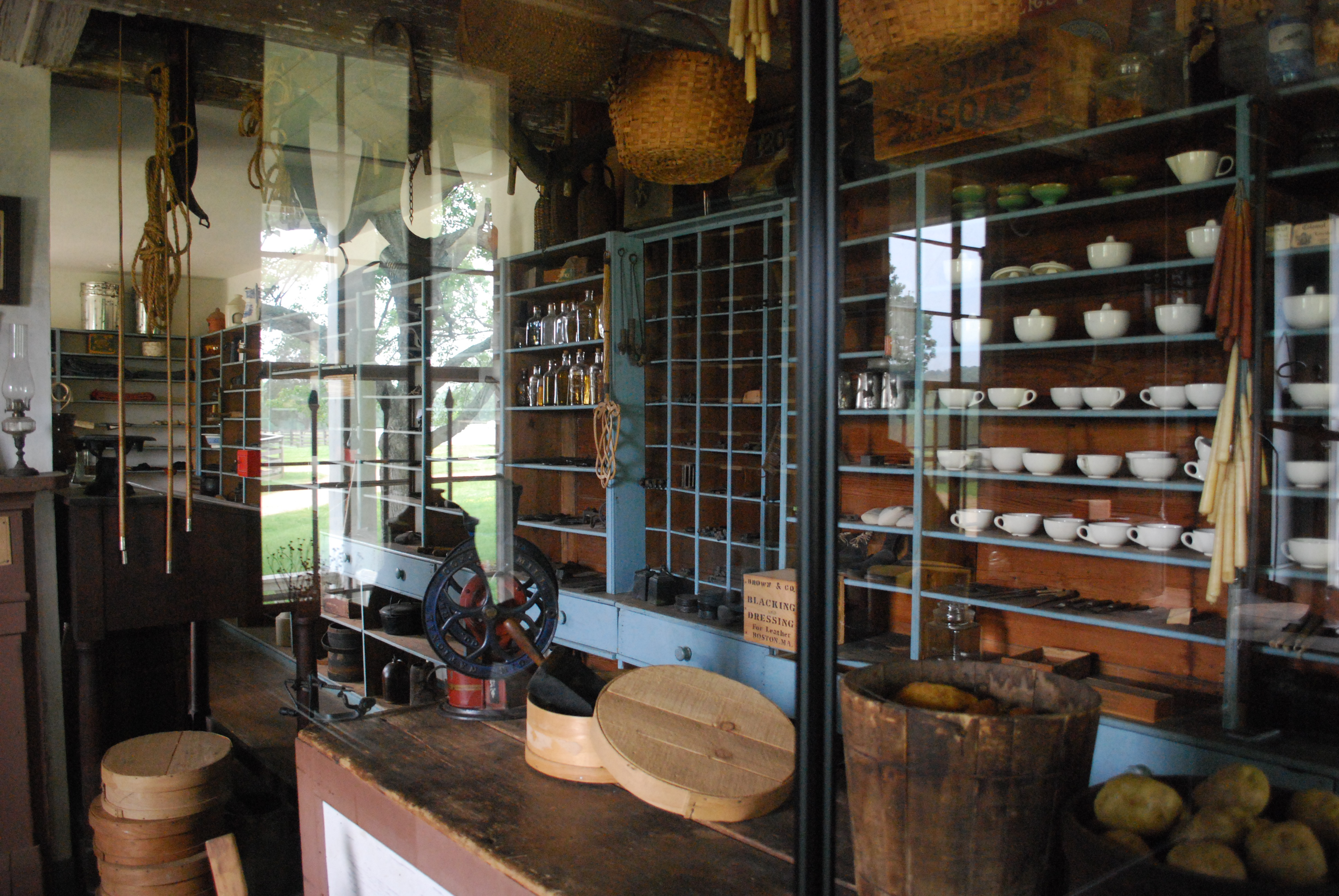 Plunkett-Meeks Store at Appomattox Court House National Historical Park.